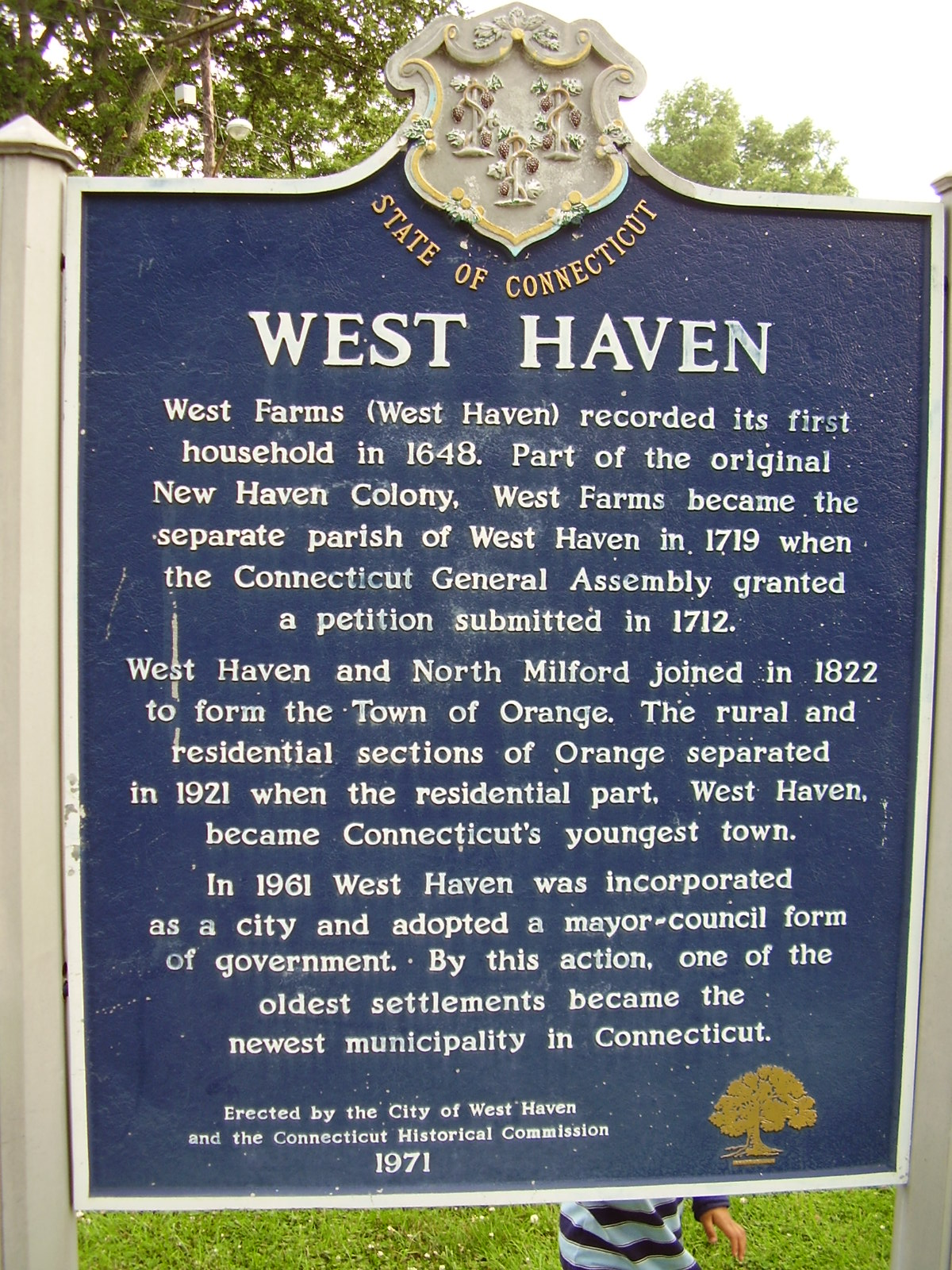 Connecticut town historical sign for West Haven. Sign is located at the corner of Campbell Avenue and Main Street.